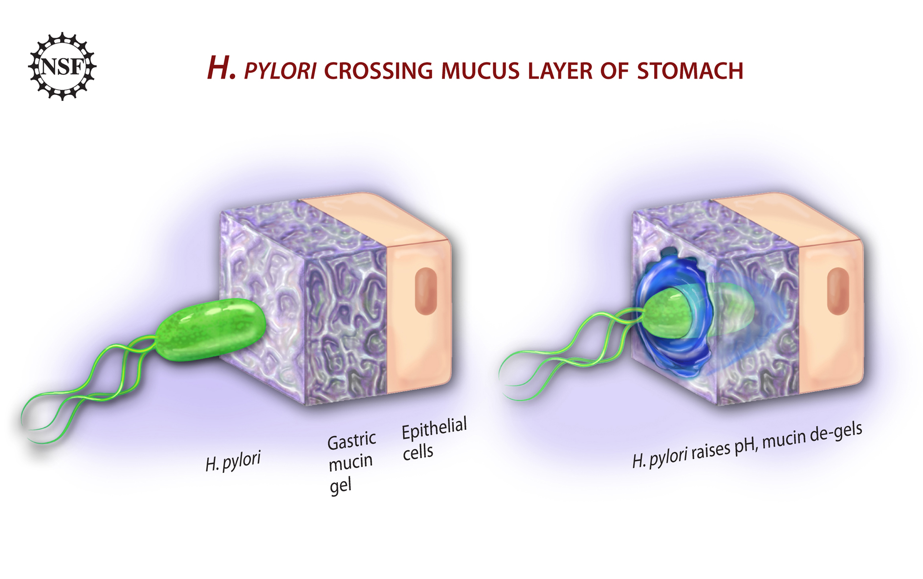 A team of researchers from Boston University, Harvard Medical School and Massachusetts Institute of Technology have shown that the bacterium that causes human stomach ulcers uses a clever biochemical strategy to alter the physical properties of its environment, allowing it to move and survive and further colonize its host.Contact with stomach acid keeps the mucin lining the epithelial cell layer in a spongy gel-like state. This consistency is impermeable to the bacterium Heliobacter pylori. However, the bacterium releases urease which neutralizes the stomach acid. This causes the mucin to liquefy, and the bacterium can swim right through it. Read more about this research. Illustration Credit: Zina Deretsky, National Science Foundation Visit NSF’s Multimedia Gallery, at for more images, and for video.